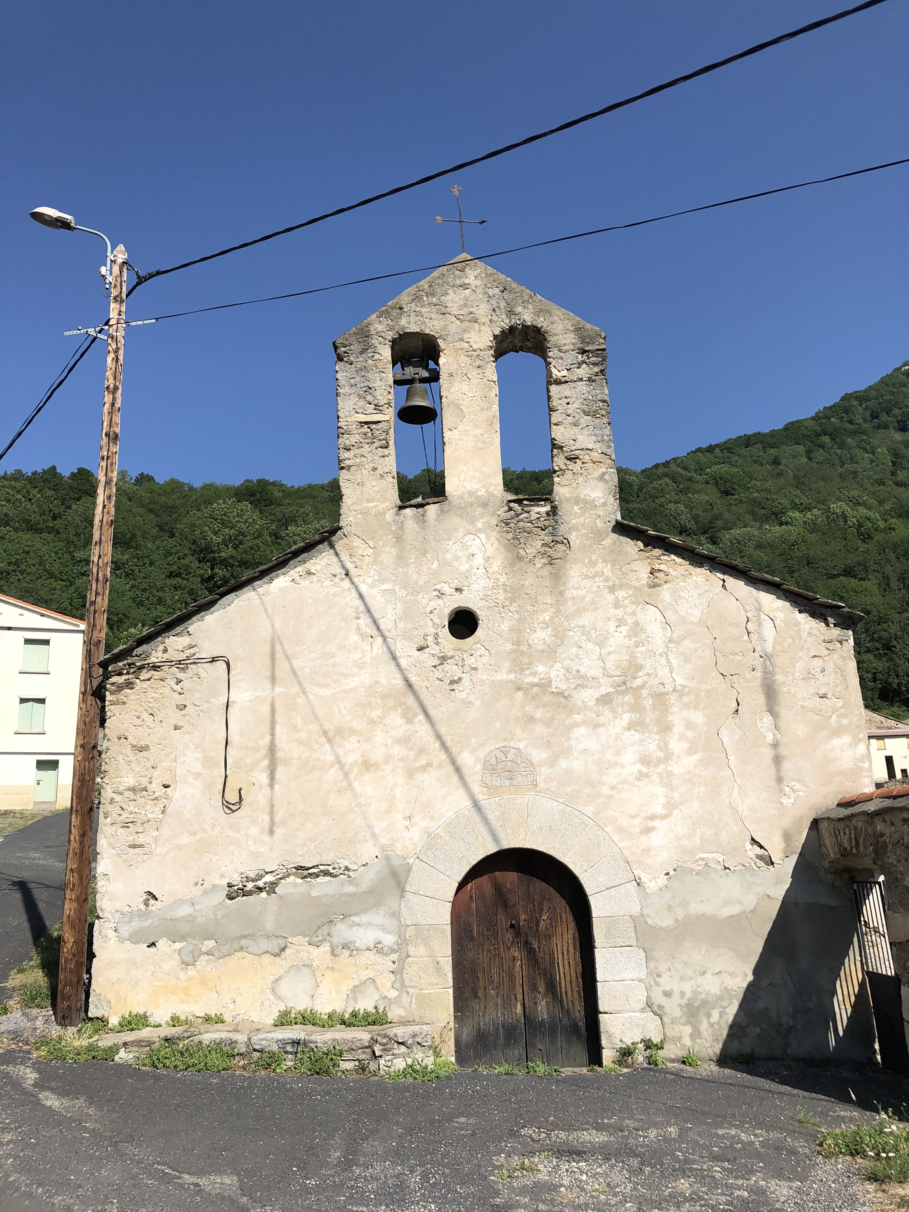 Fassade of Sant Isidre de la Presta. La Presta, Prats de Molló; Vallespir.